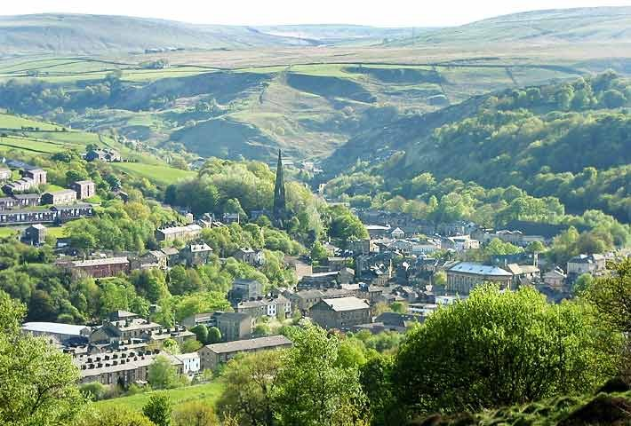 Loh93 01:14, 26 November 2006 (UTC)My own photo